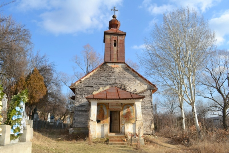 Wooden church in Rocșoreni, Mehedinți county, Romania